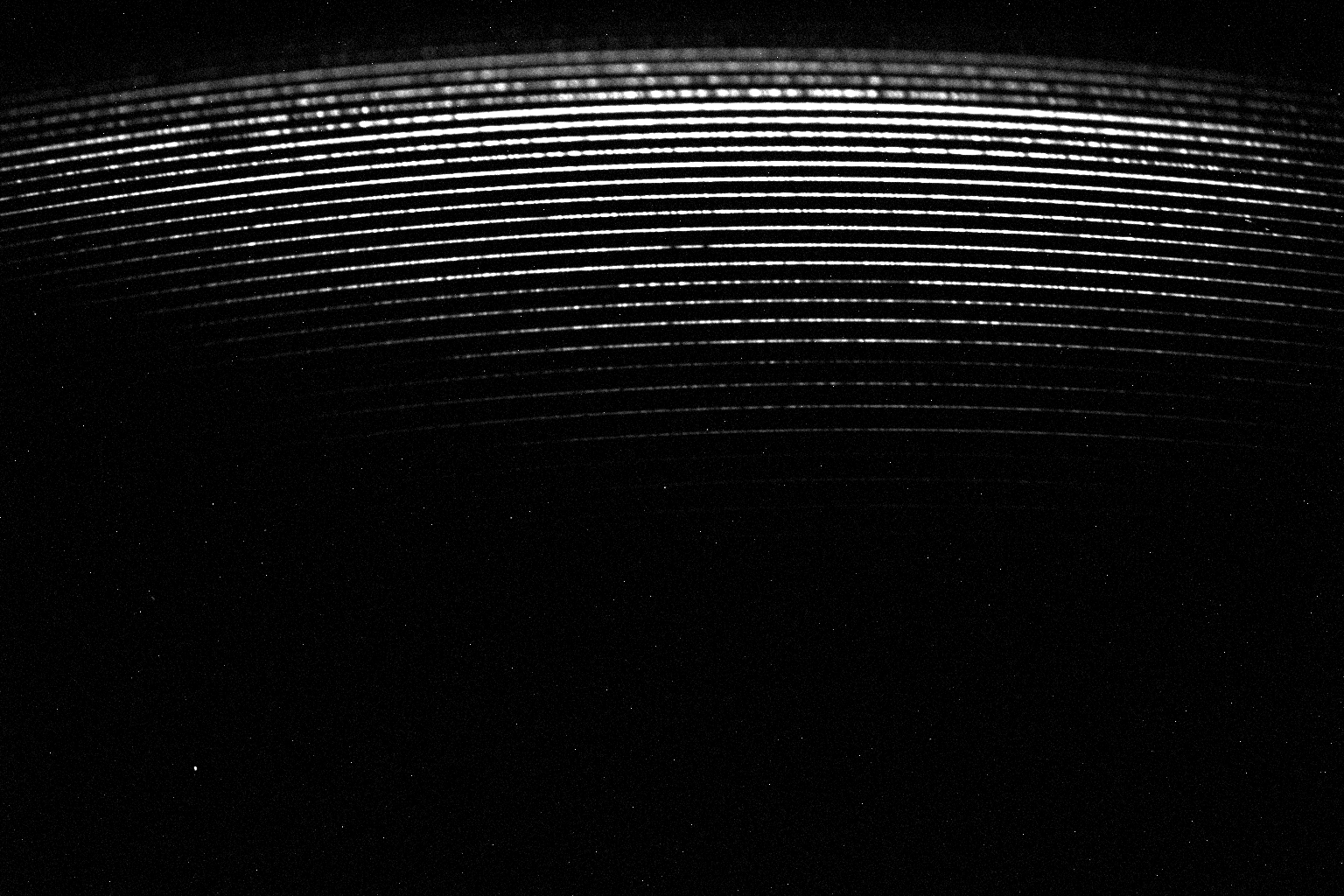 This is a photo of an uncalibrated Echelle spectra of the carbon star UU Aurigae. This image was taking at the University of Pittsburgh's Allegheny Observatory in the City of Pittsburgh. Using a Meade 16" RCX-400 telescope and a Shelyak Instruments Echelle Spectrograph on March 18, 2015.